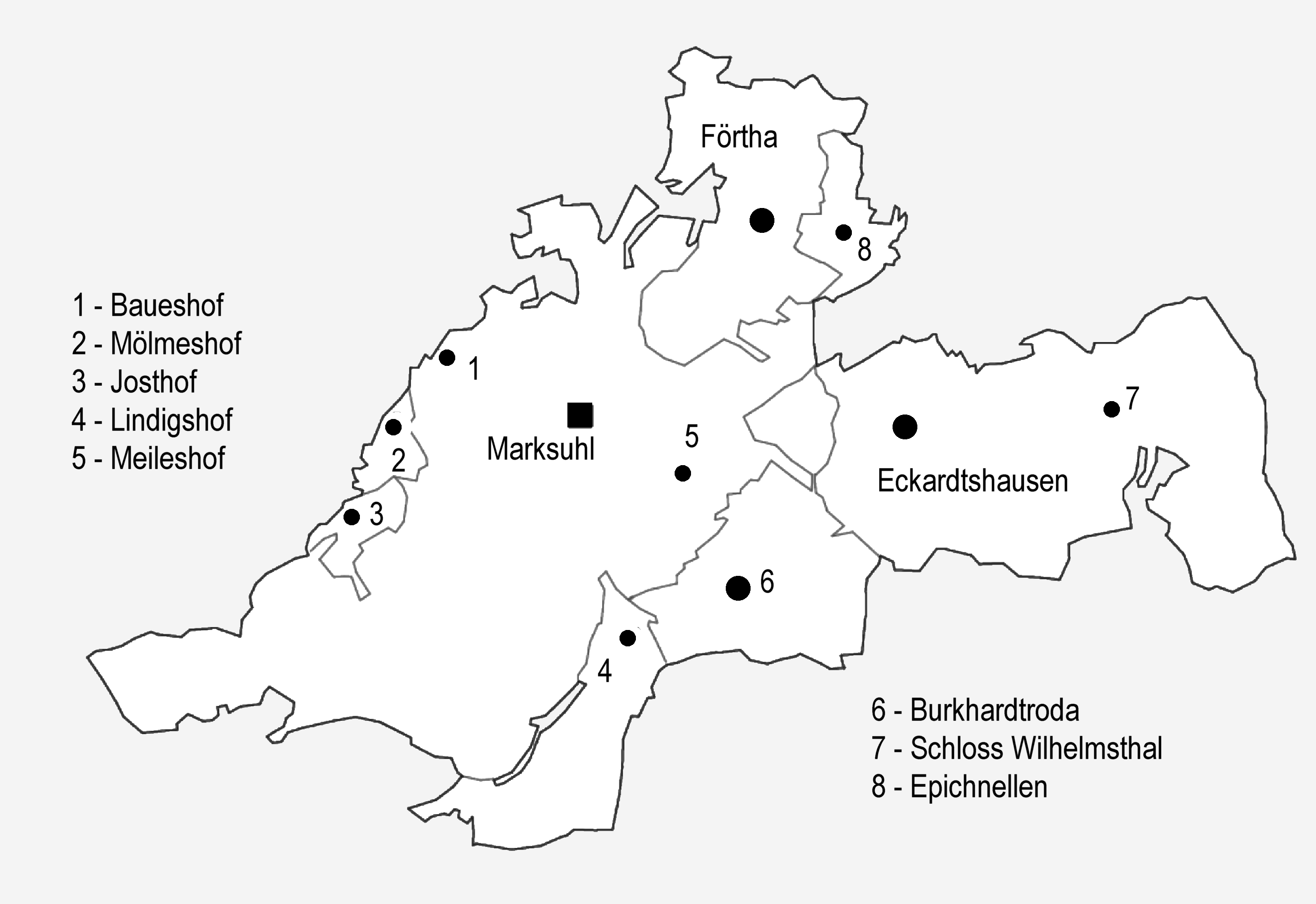 District-Map of Marksuhl.